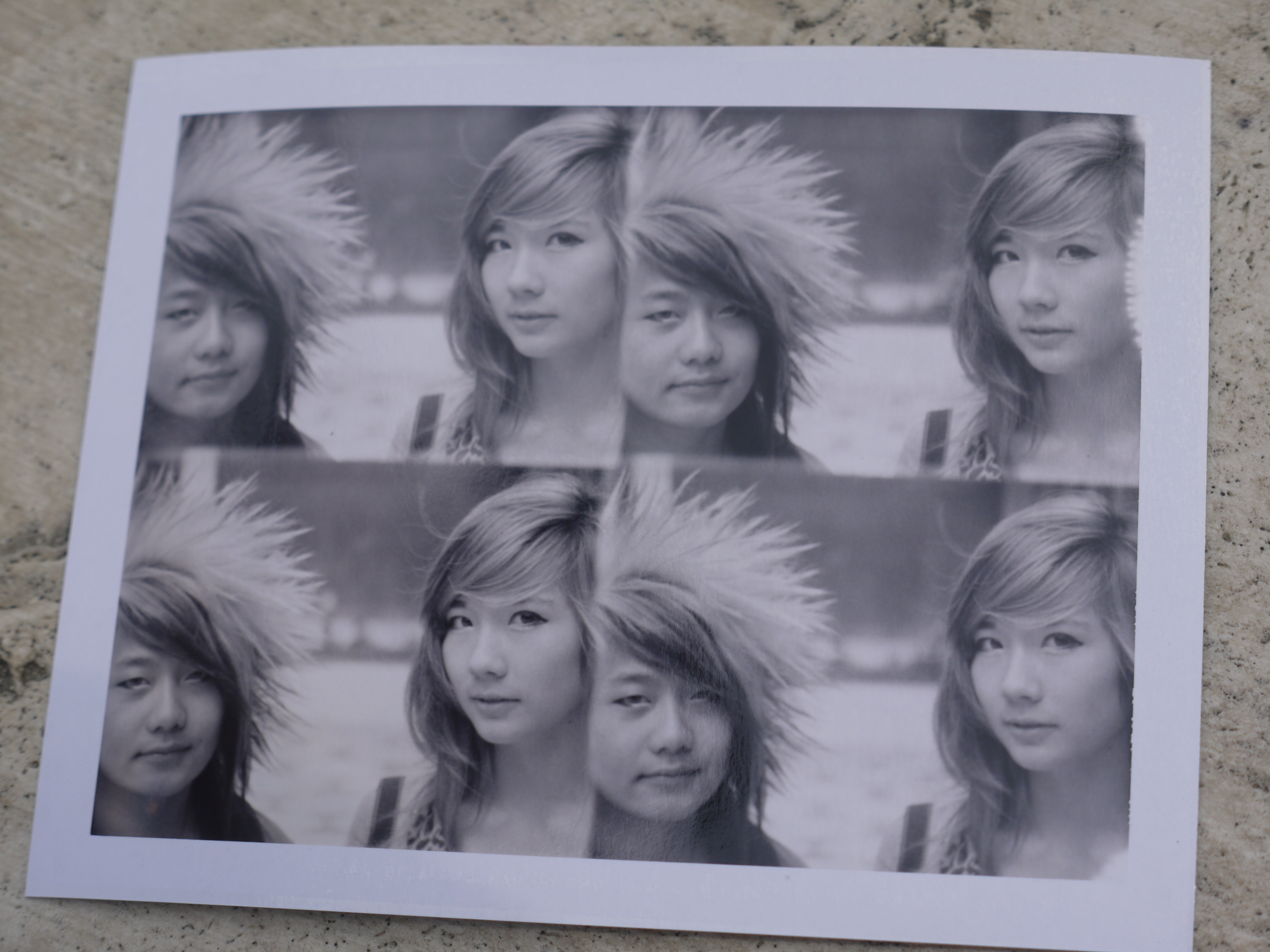 example of photograph taken with a Polaroid Miniportrait - Pack 100 model